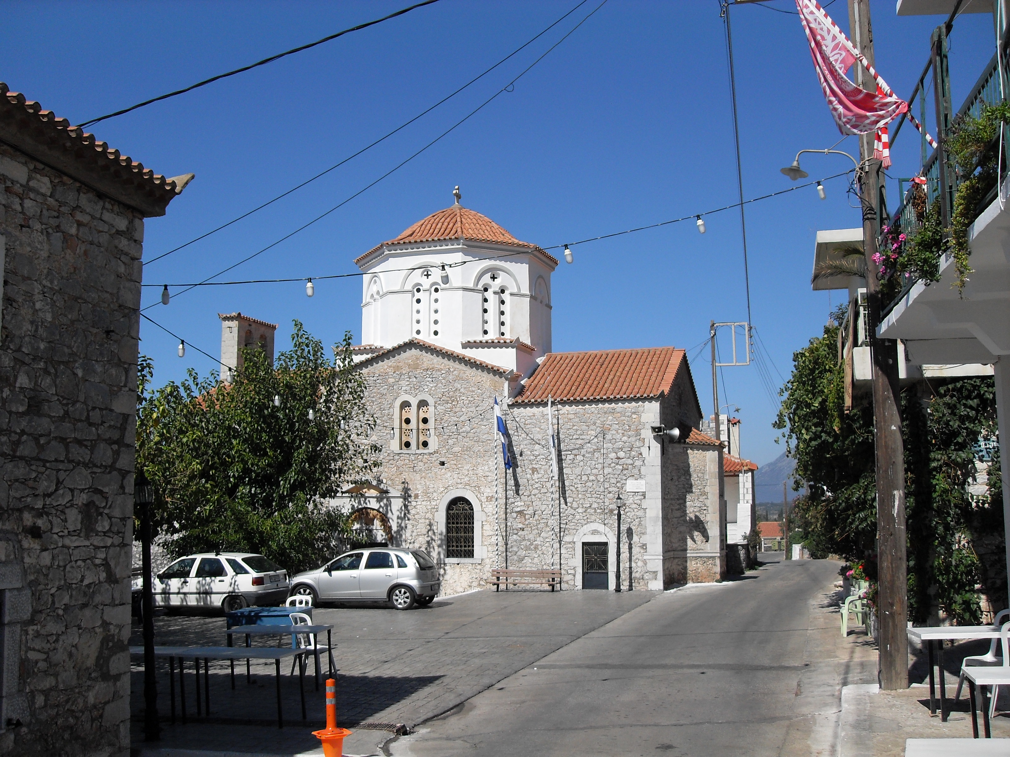 Church inside the village of Aghios Nikon, municipality of Lefktro, community of West Mani